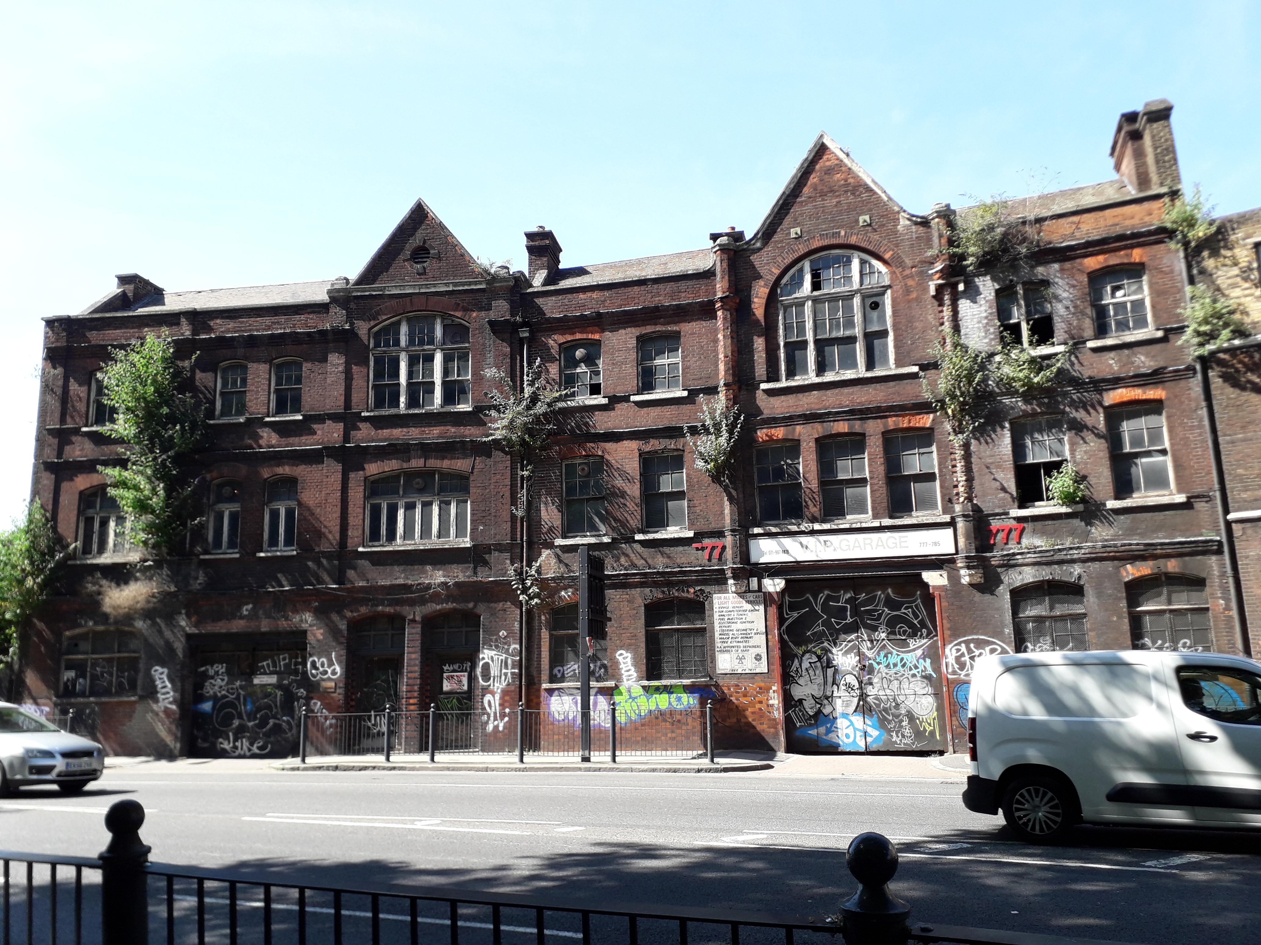 The derelict VIP Garage, Commercial Road, London, once housed the cutting edge Caird & Rayner factory. Originally a sailmaker's loft, It is a listed building. The Limehouse Cut is at the rear.